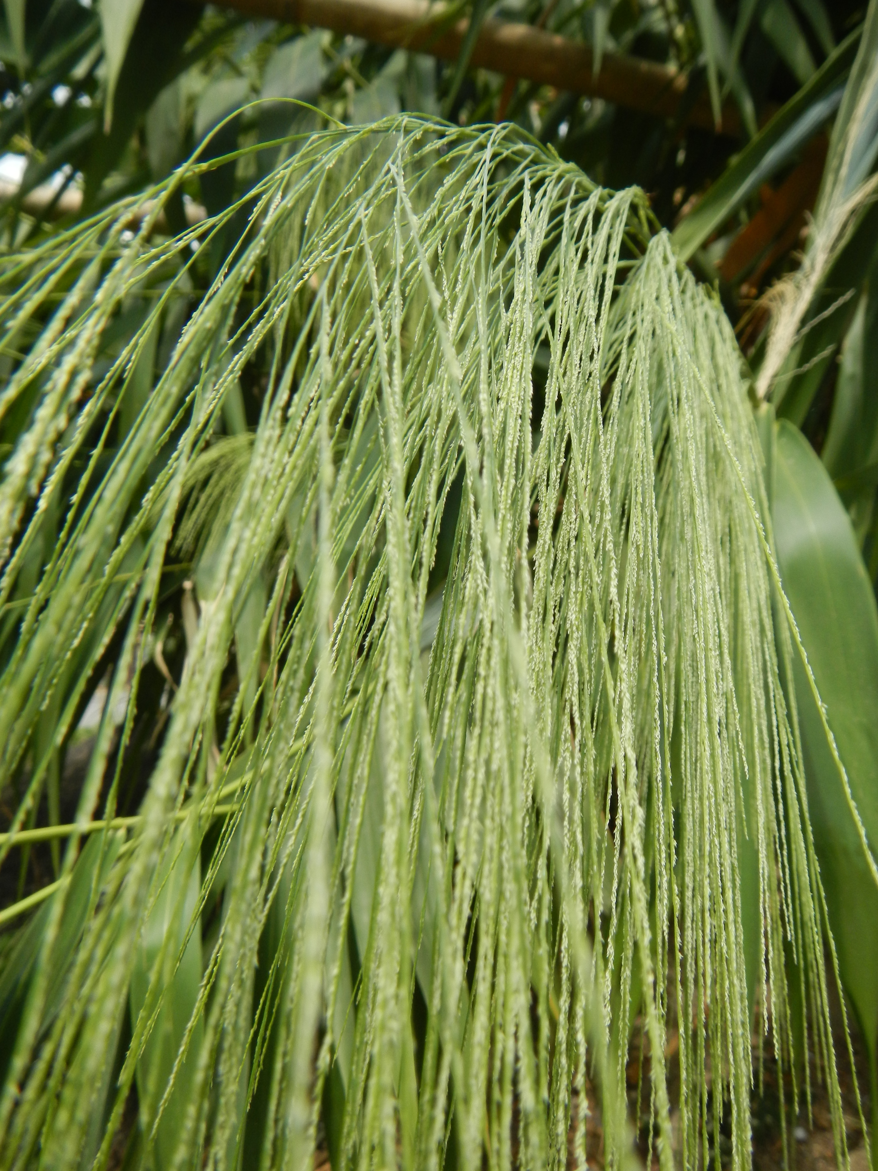 Naguilian-Bagulin Road, gateway to Welcome Arch of Bagulin, La Union to Town Proper via the Suyo Bridge KM 280+168 CY2003 to the Saint Joseph, the Husband of Mary Parish Church (Bagulin, La Union) and Town Hall (bordered by Cordillera Central (Luzon), with Title in the Arch of Soft Brooms Capital Broom, Thysanolaena maxima, or Tiger grass proliferating in the Town).